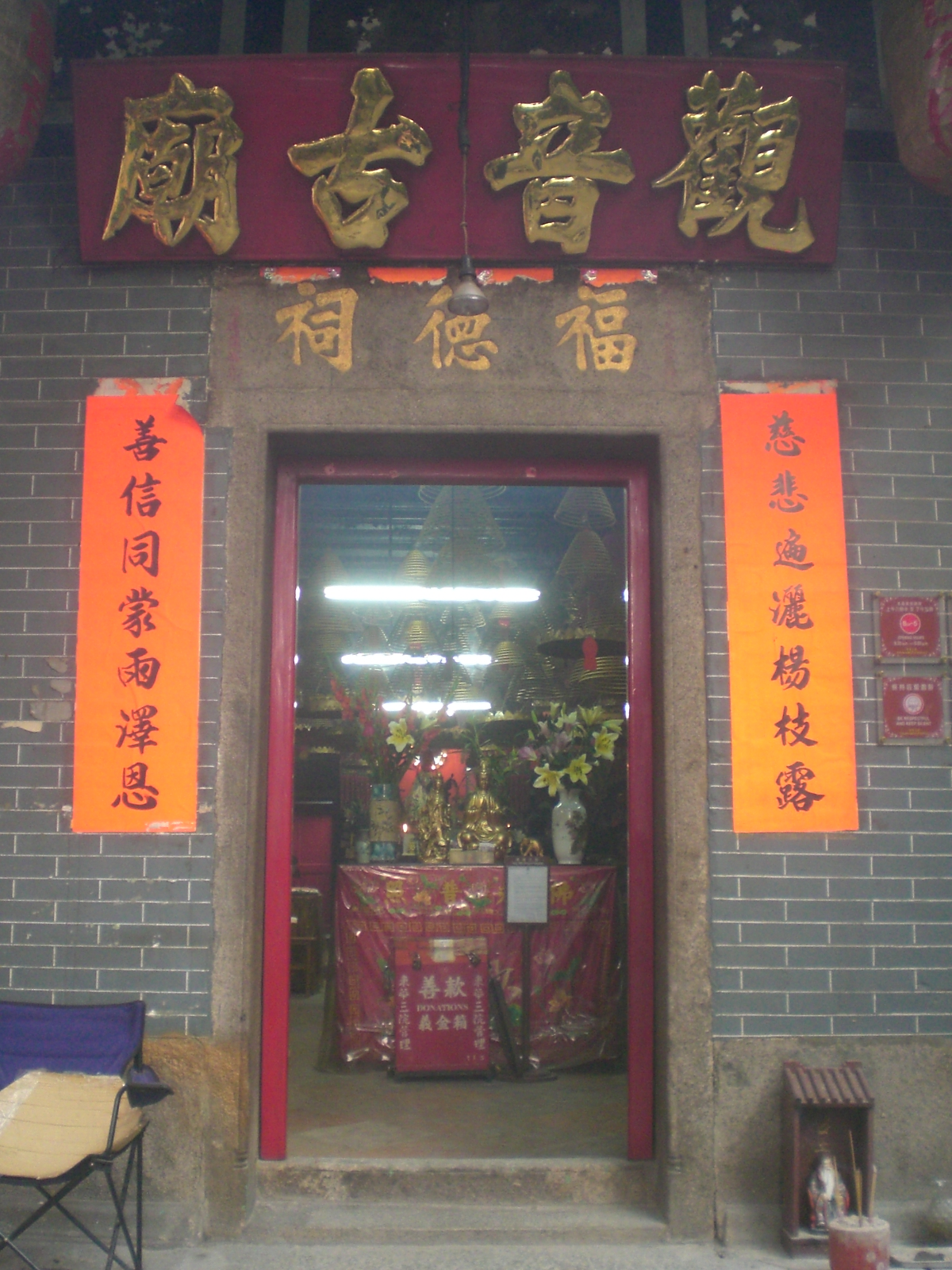 油麻地